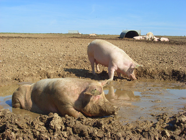 Pigs, Chilton Foliat Wallowing on the northern slope of the Kennet valley midway between Chilton Foliat and Ramsbury.